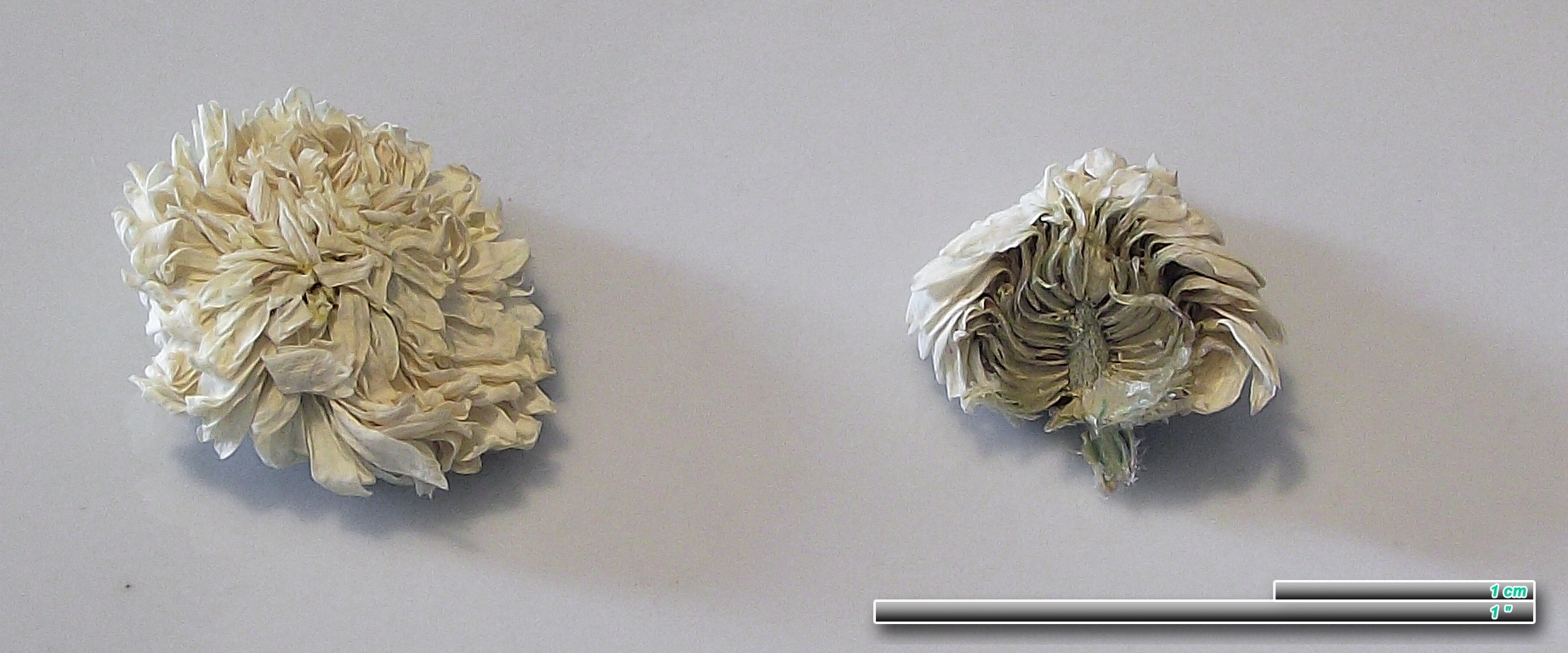 dried Anthemis nobilis [synonym: Chamaemelum nobile], commonly known as Roman Camomile, Chamomile, garden camomile, ground apple, low chamomile, English chamomile, or whig plant; Flower